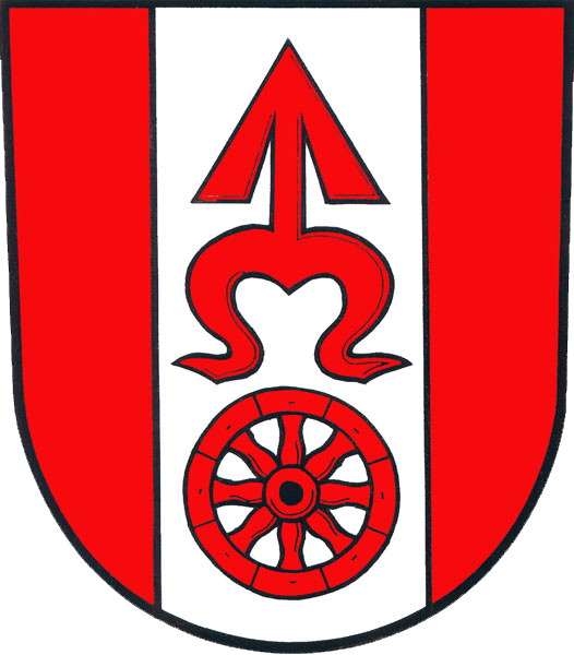 Coat of arms of village Jezdkovice in Moravian-Silesian Region, Czech Republic. Česky: Znak Jezdkovic, obce v Moravskoslezském kraji. (Blason: V červeném štítě ve stříbrném rozšířeném kůlu zavinutá střela nad vozovým kolem, obojí červené.)